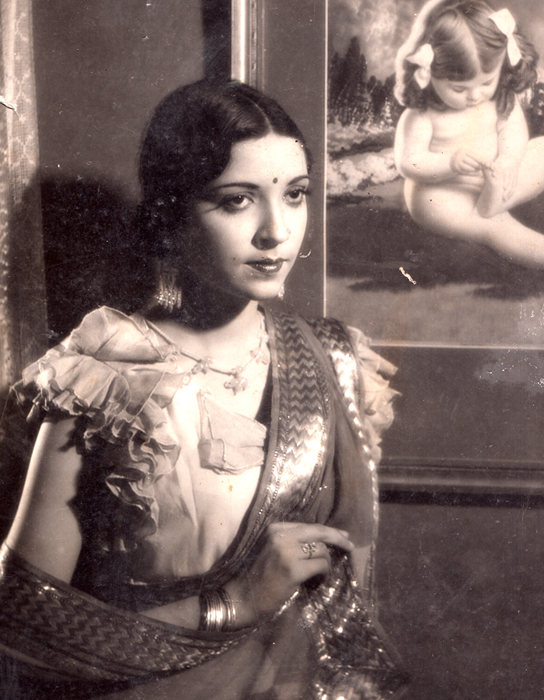 Ragini n 1940s